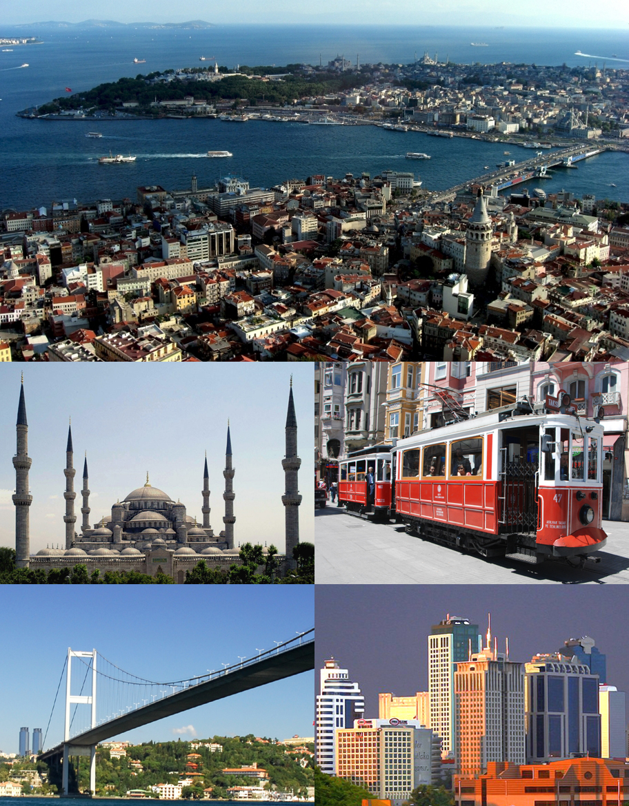 Top: An aerial view of Galata (foreground) and the Seraglio Point (background) across the Golden Horn, at the eastern tip of the historical peninsula of Istanbul. The Princes' Islands are seen on the horizon, at left. Middle left: Sultan Ahmed Mosque (Blue Mosque) Middle right: İstiklal Avenue Bottom left: Bosphorus Bridge Bottom right: Maslak financial district